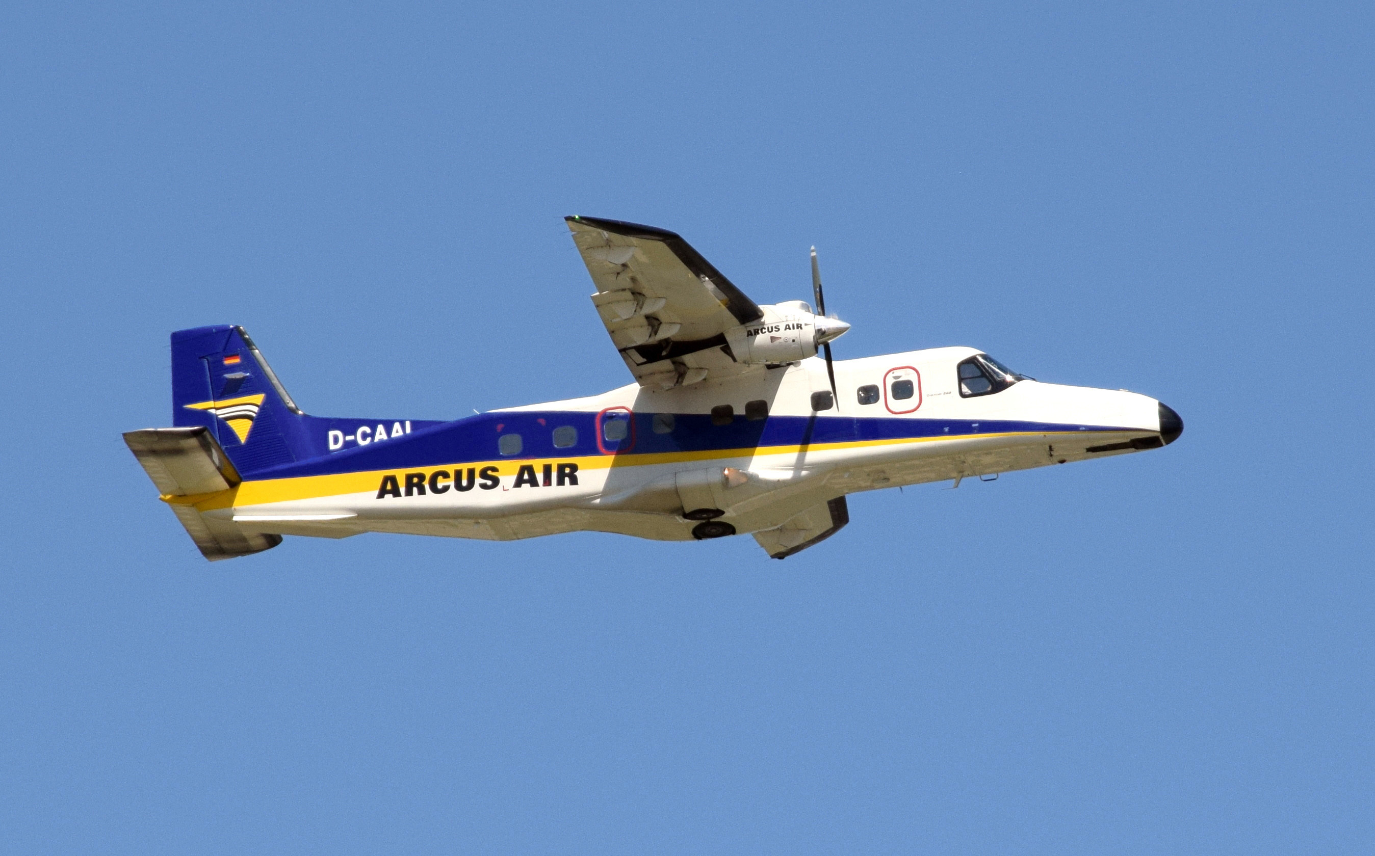 Dornier Do 228-200 (D-CAAL) of Arcus-Air departs Birmingham Airport, England. D-CAAL was built in 1989.